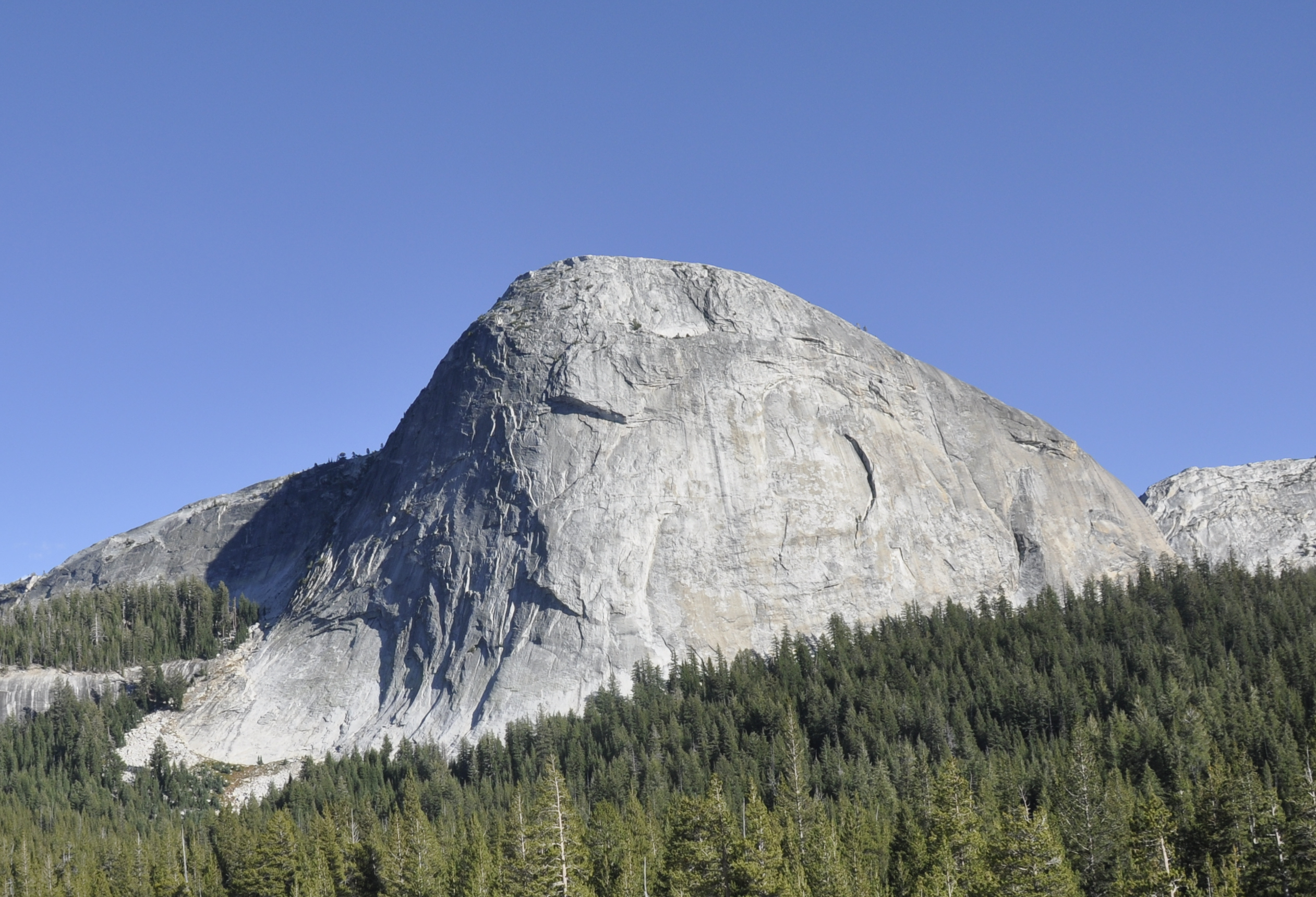 Tuolumne Meadows section of Yosemite National Park. Fairview Dome from Daff Dome descent